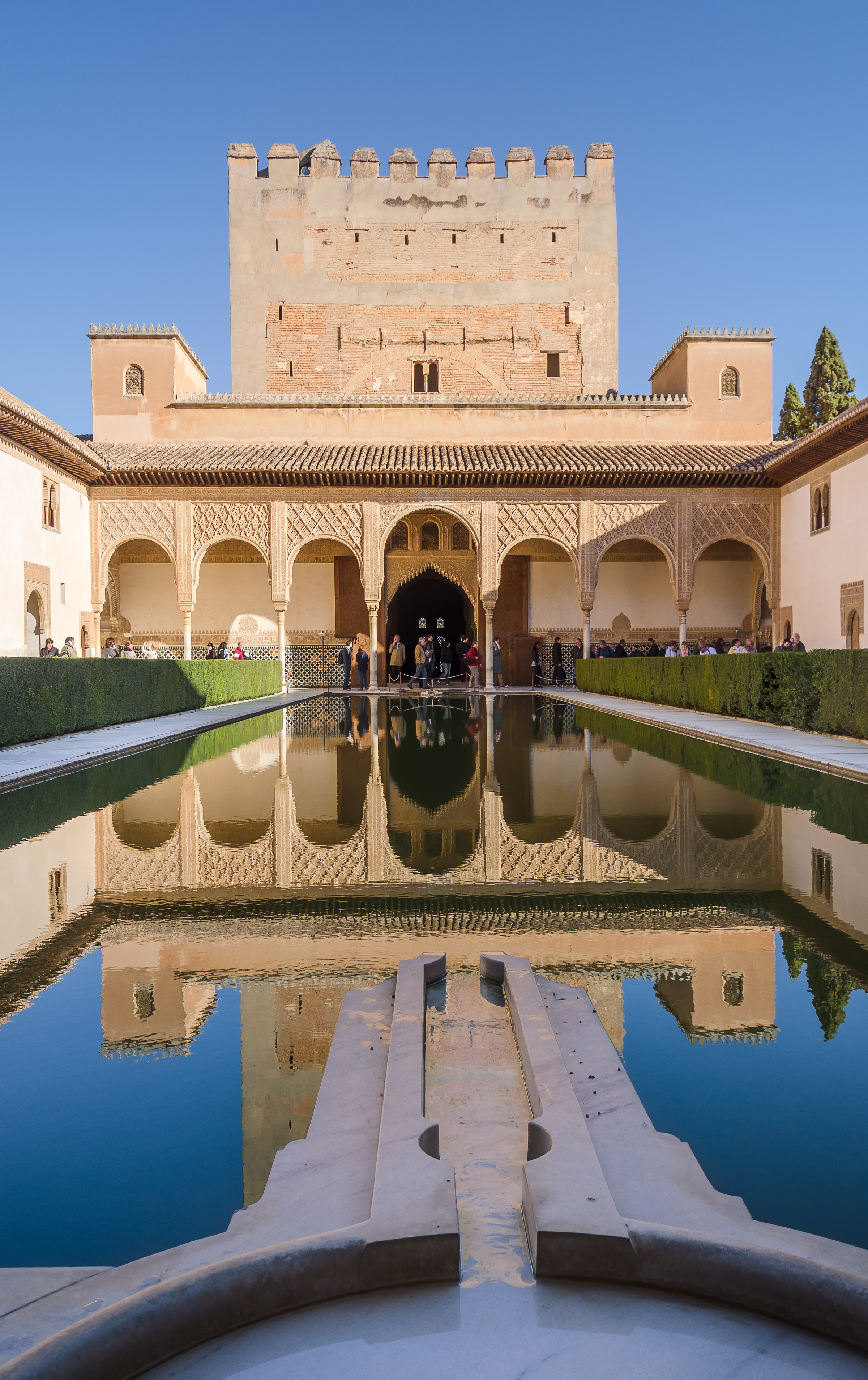 Alhambra Patio de los Arrayanes